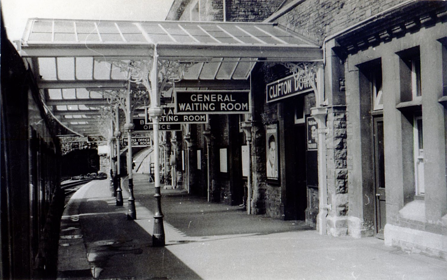 1956 view of Clifton Down railway station, Bristol.